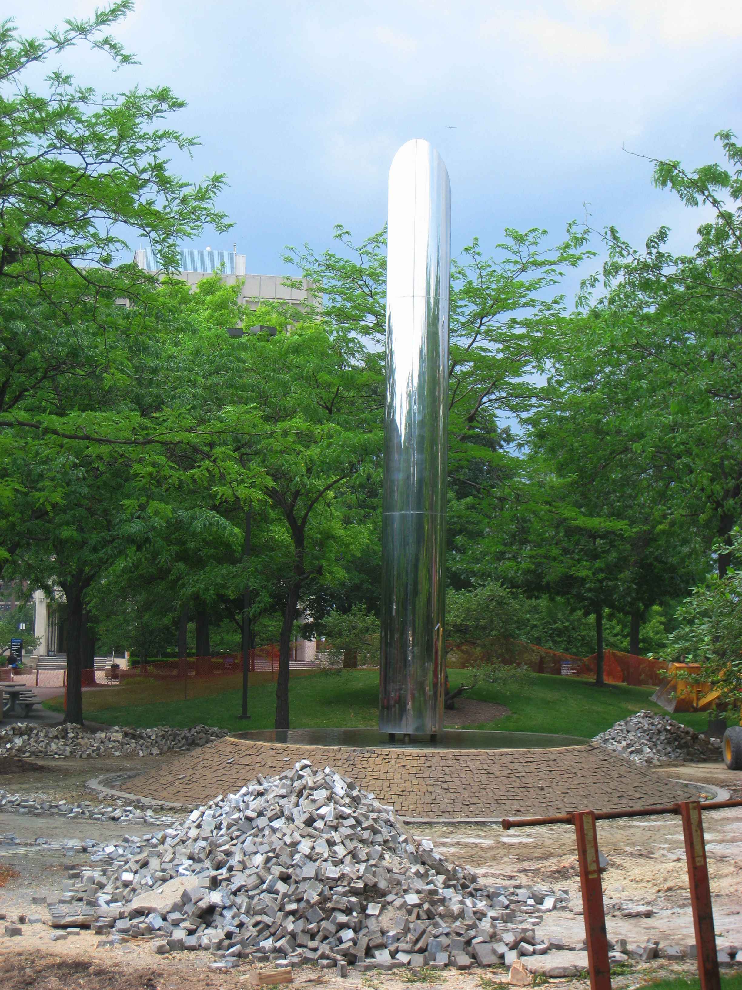 Monument to Albert Michelson & Edward Morley, Case Western Reserve University, Cleveland, Ohio, USA. (Under reconstruction.)